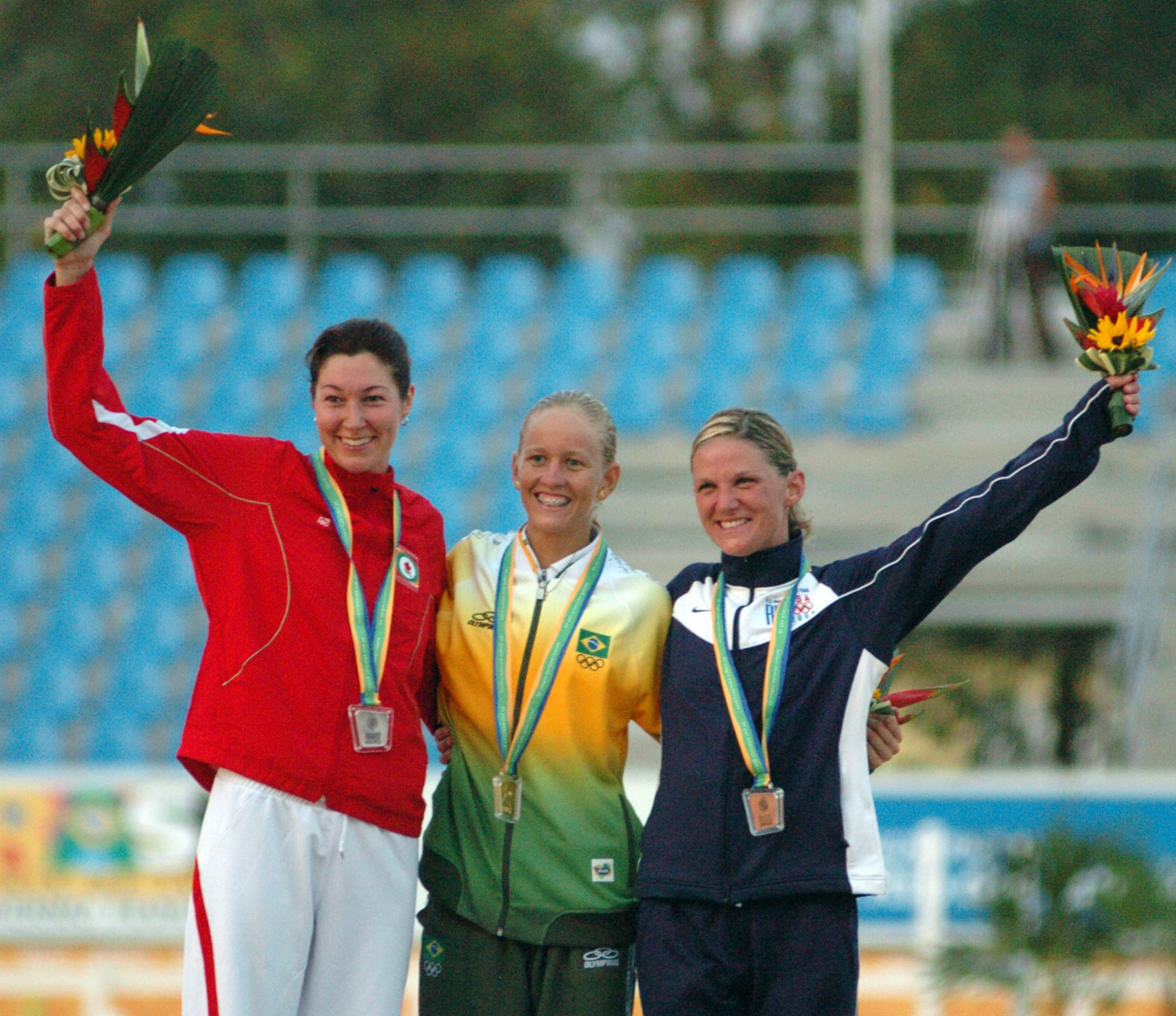 Left to right: silver medalist Monica Pinette of Canada, gold medalist Yane Marques of Brazil and bronze medalist Mickey Kelly of the U.S. Army World Class Athlete Program celebrate earning berths in the 2008 Olympic Games with a 1-2-3 finish in the women's modern pentathlon July 23 at XV Pan American Games 2007 in Rio de Janeiro, Brazil.